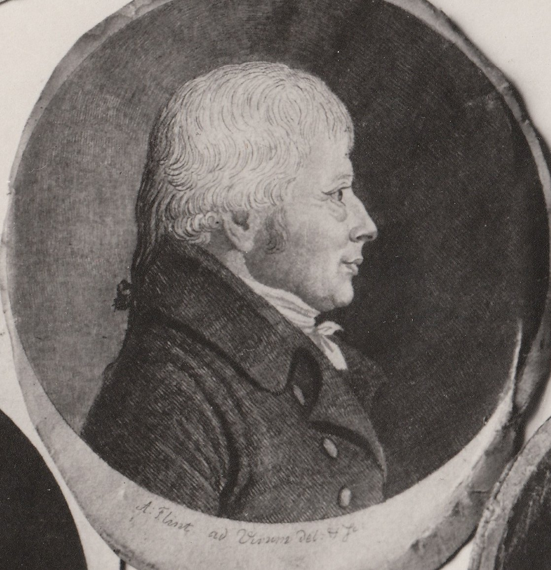 Portrait of Hans Carl Knudtzon photographed by Erik Olsen in 1897 in connection with the exhibition Trondhjems 900-årsjubileum (Trondheim`s 900-years anniversary).